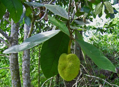 Artocarpus odoratissimus leaves and fruit from Kutai Barat, East Kalimantan, Indonesia